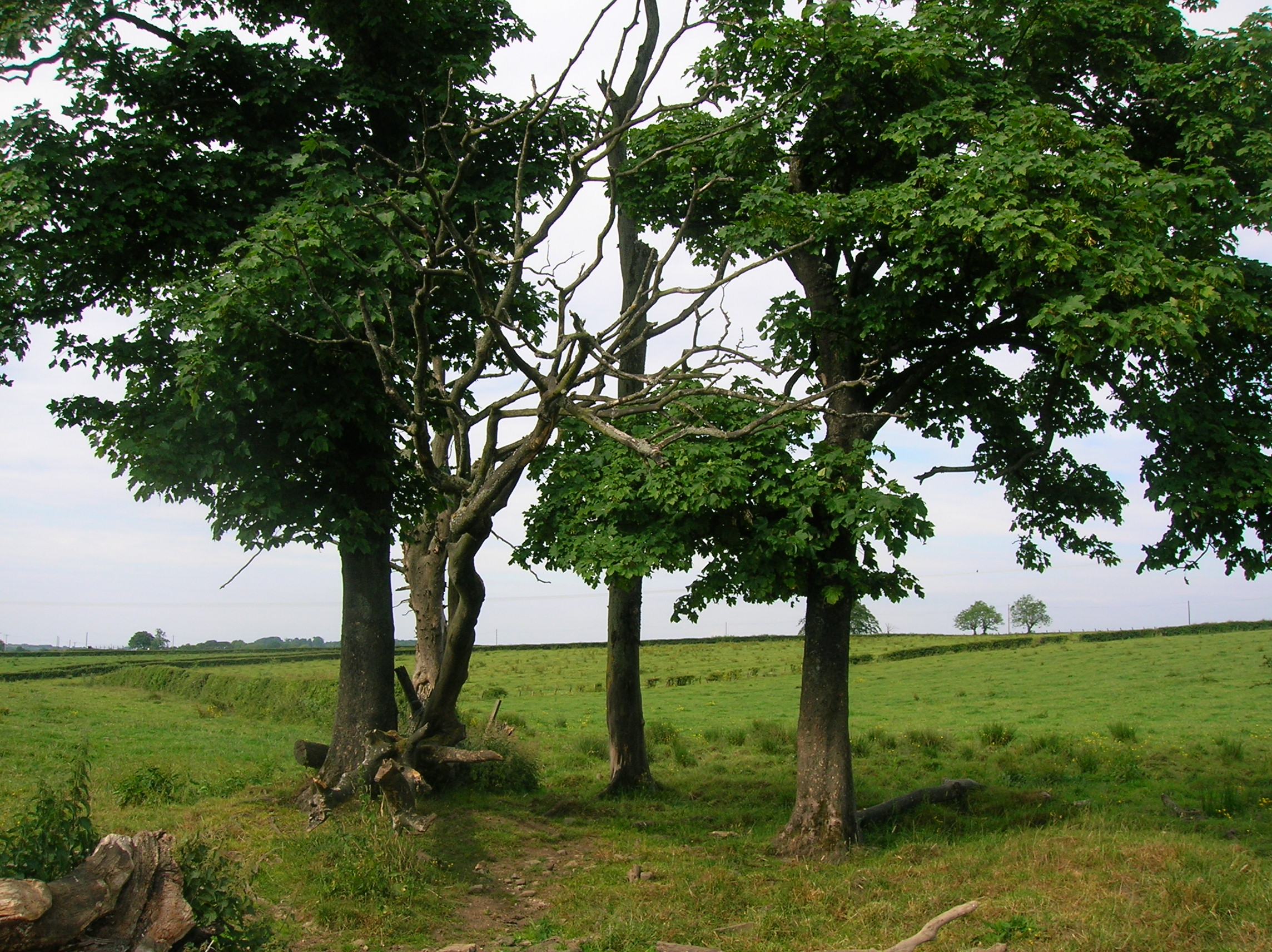 Detail of the Cholera pit site near Soth Barr Farm, Barrmill, Ayrshire, Scotland